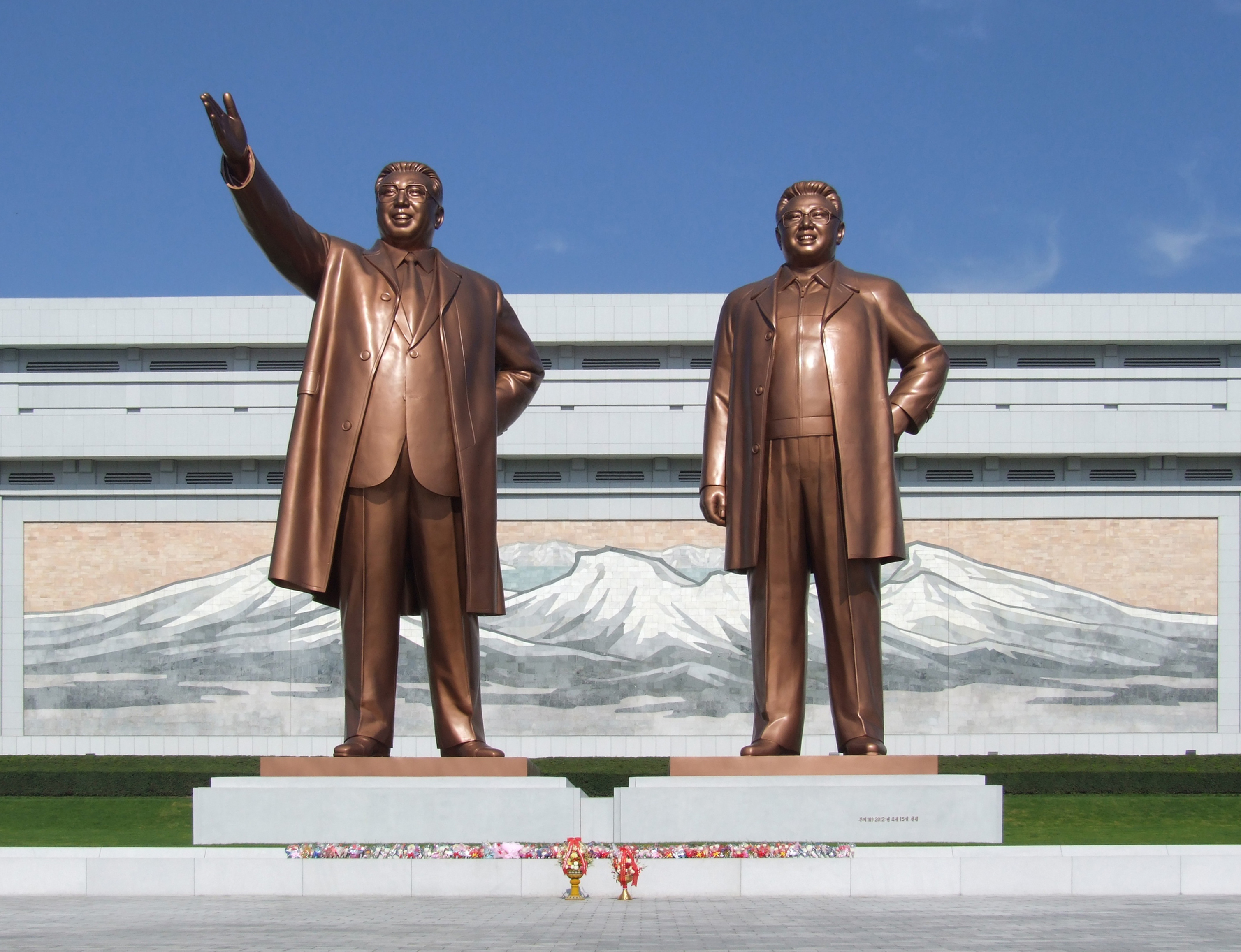 Mansudae Grand Monument